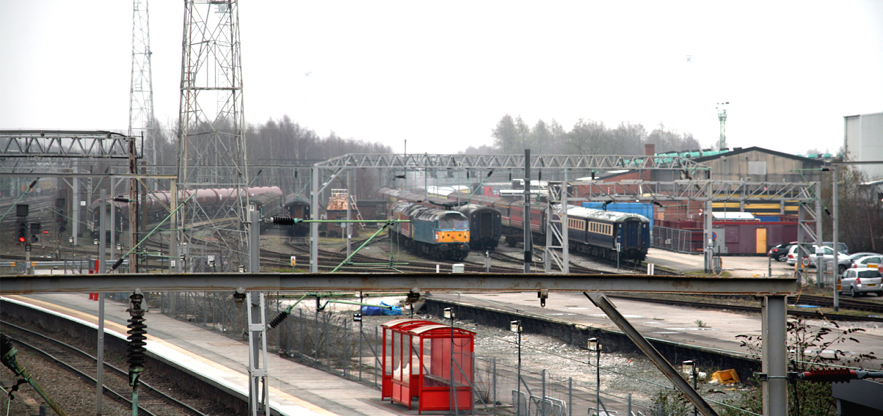 A panoramic image of Crewe Diesel TMD viewed from the main footbridge at Crewe station.